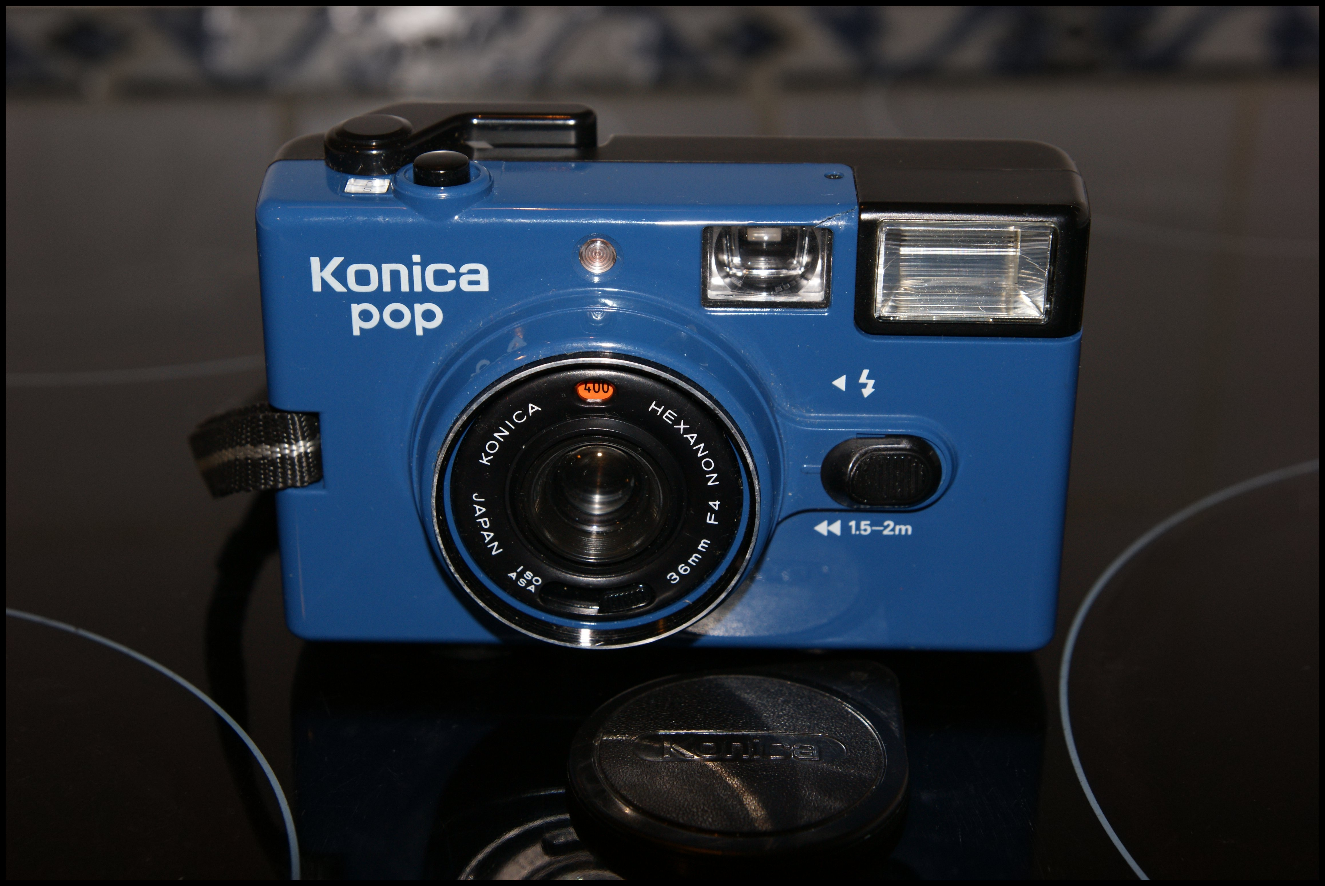 Konica C35 EFJ (Japan) (1982) "Konica POP" (export markets)